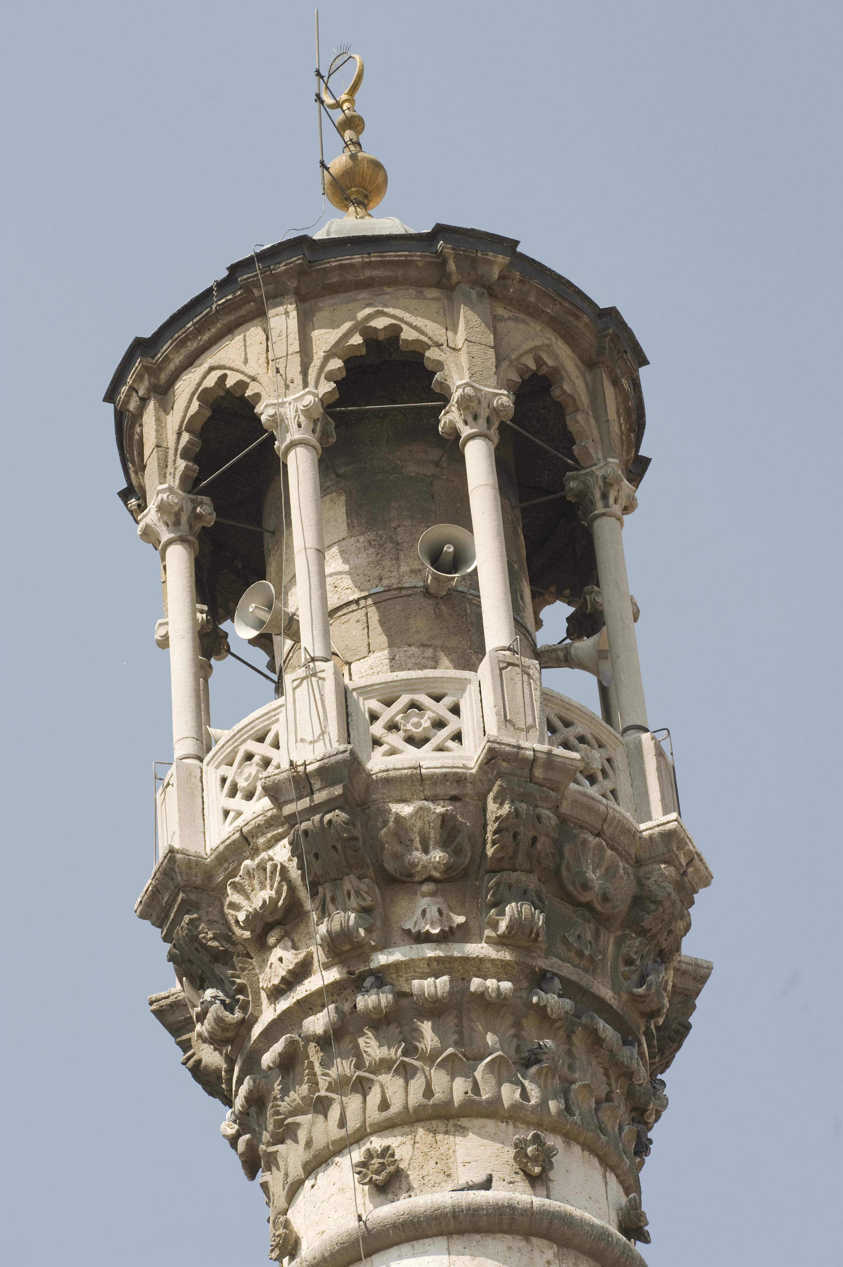 The balcony on a minaret where the call to prayer would be made from (now by loudspeaker). In Turkish the name for such a structure is şerefe, the structure of the ones at this mosque, with pillars, is unique.